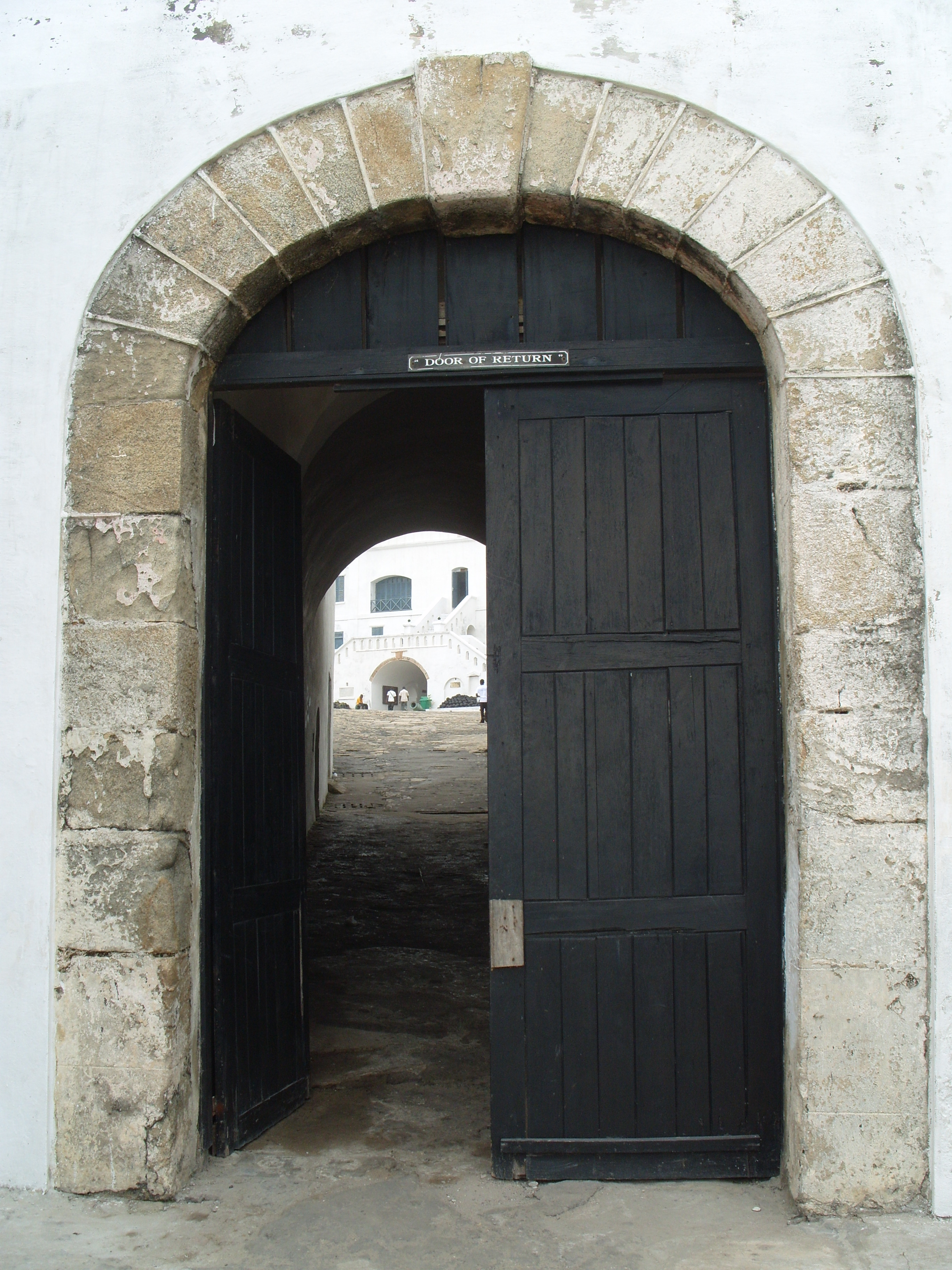 The "Door of no return" through which the slaves left the castle when they were shipped away. It was not possible for any of them to ever return to their homeland. In July 2009, at his first official visit to sub-Saharan Africa President Obama visited the castle and symbolically passed through this door and then back to the caste. Then the door was renamed to "Door of return". (I believe it was actually renamed earlier, prior to the president's visit. They did unveil a plaque for the president during his visit, but the door was already the "Door of Return")